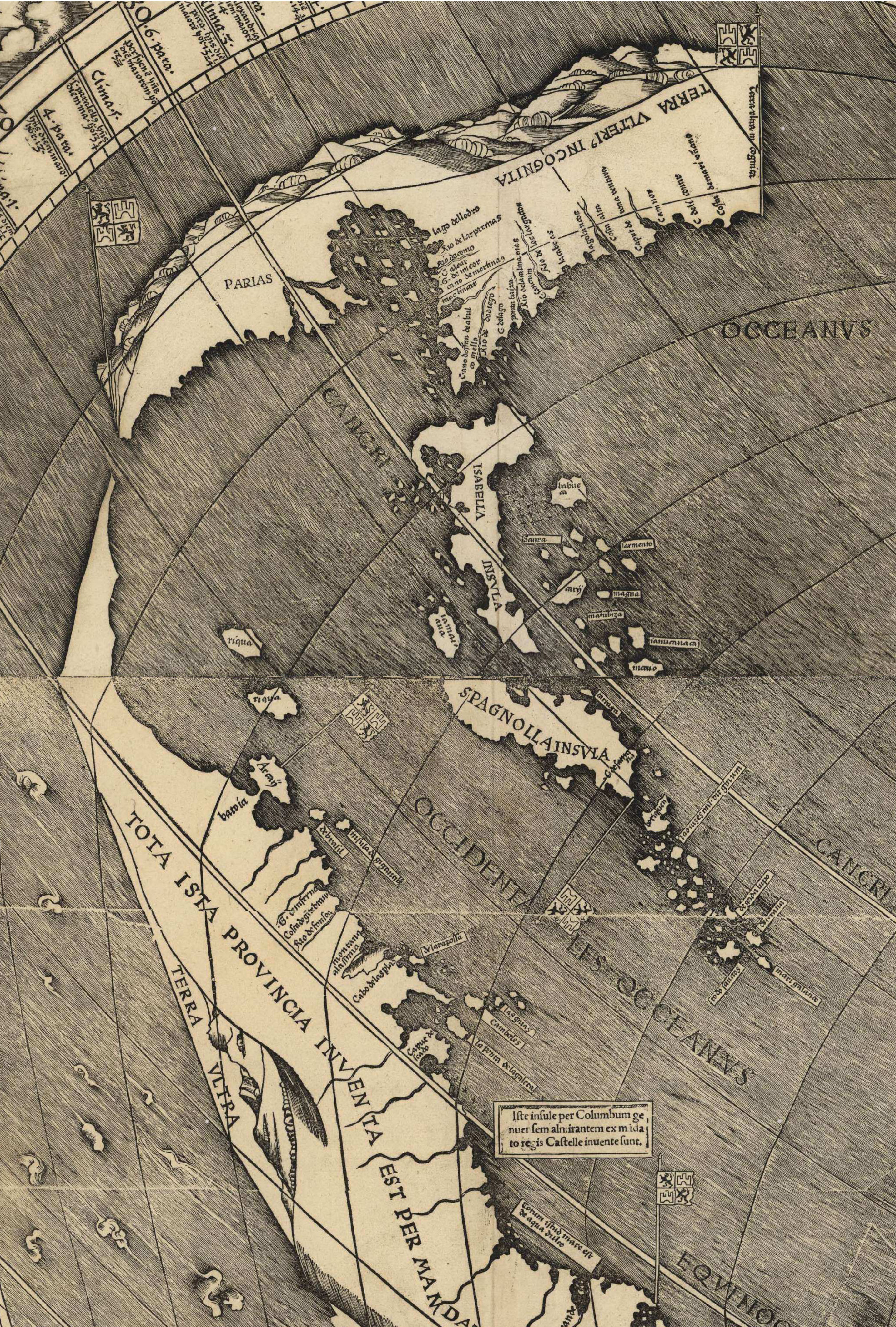 Fragment of the Waldseemüller map centered around the Caribbean region.